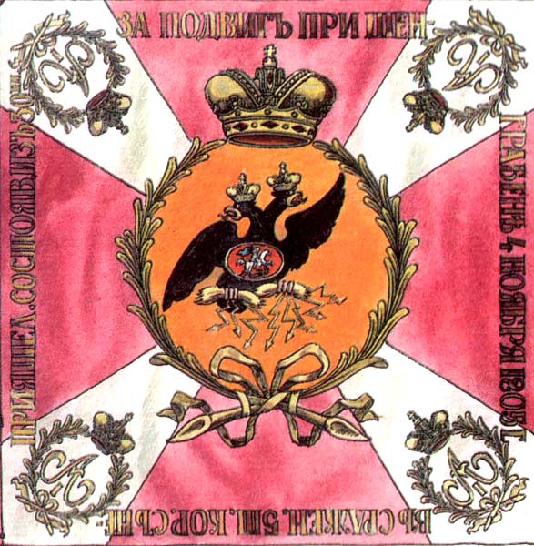 Standard of the Kiev 5th Grenadier Regiment